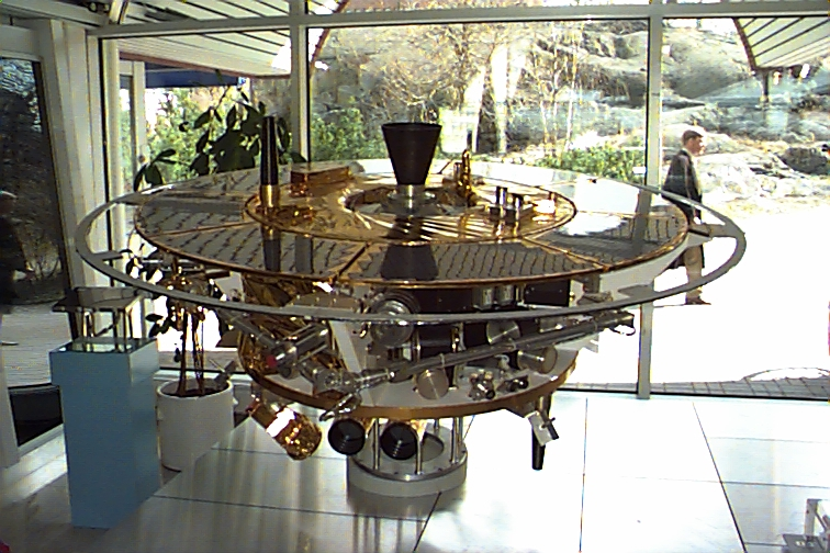 A full-scale mockup of the Swedish-German Freja satellite, in the entrance hall of the Swedish Space Corporation in Solna, Sweden.